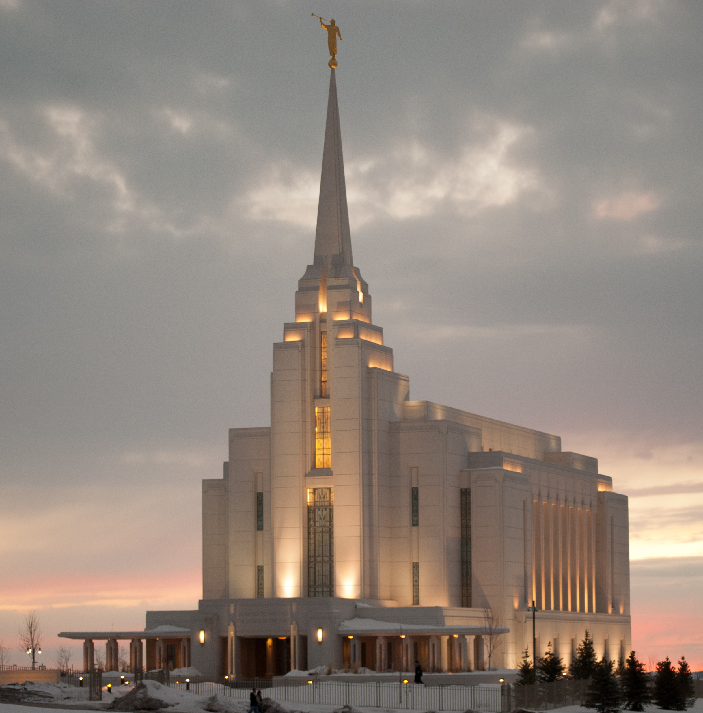 A high resolution picture of the Rexburg, Idaho temple at sunset.